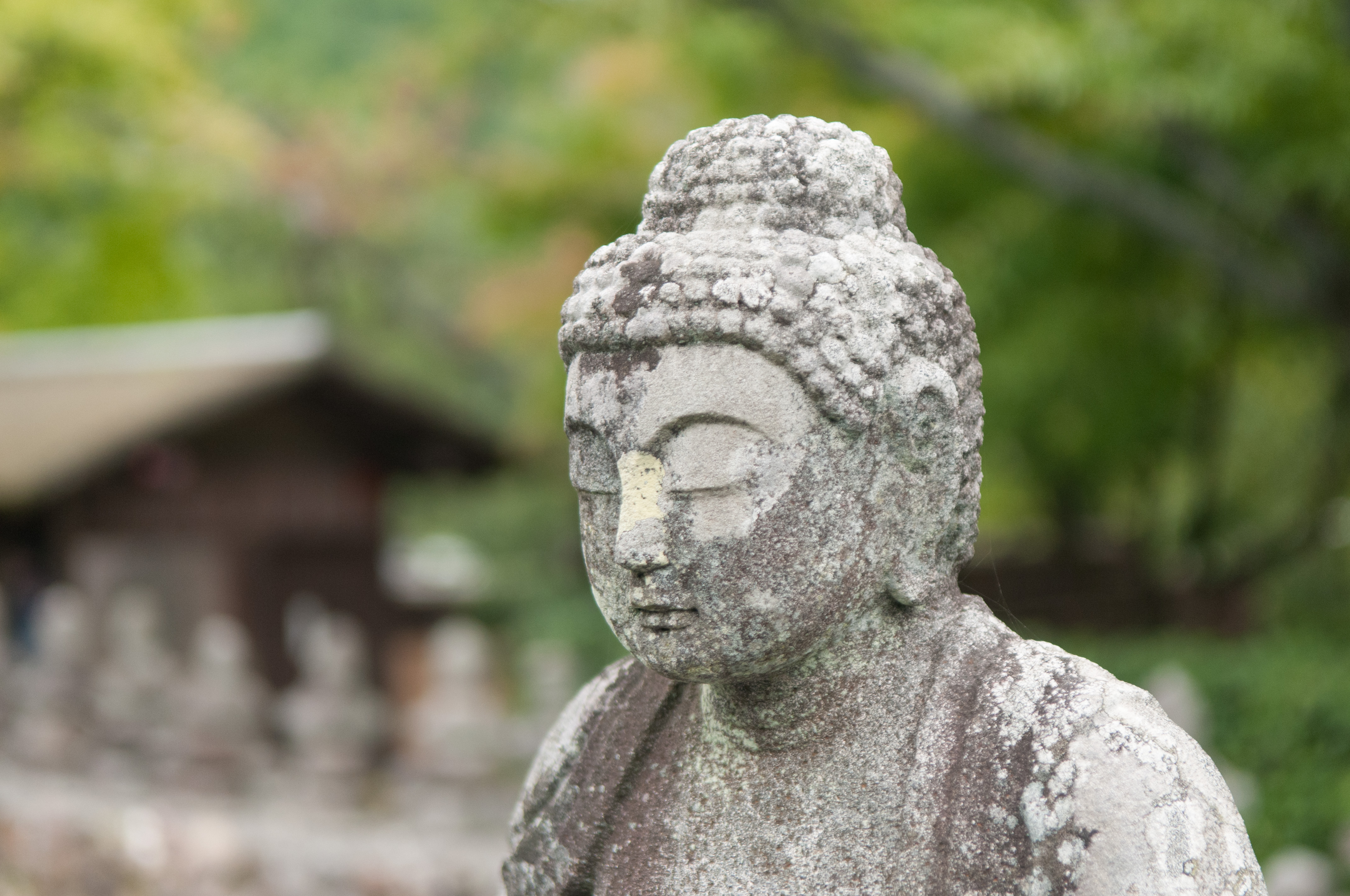 Photo of the central Buddha at Adashino Nenbutsu-Ji.